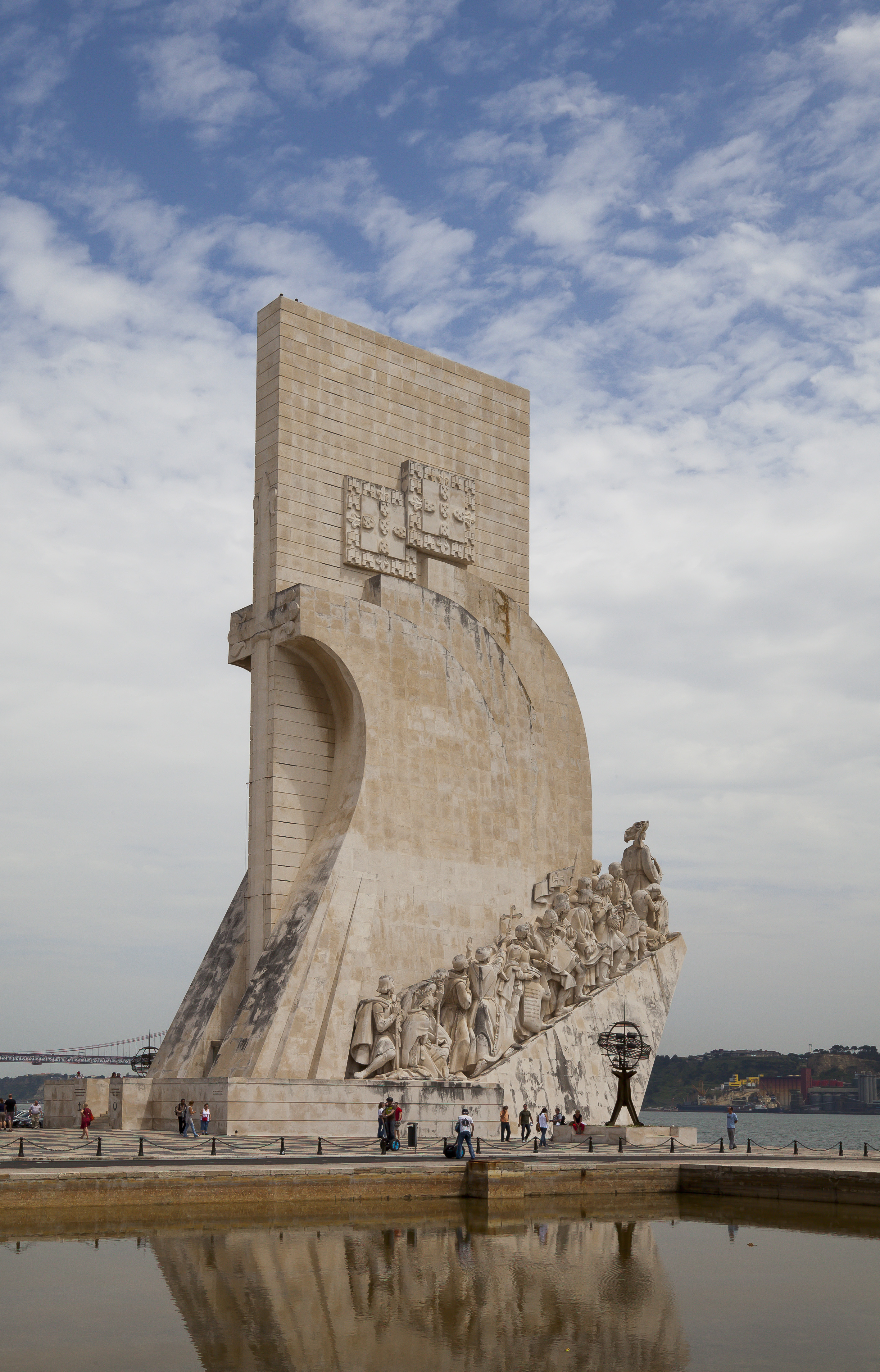 Monument to the Discoveries in Belém (Lisbon), Portugal